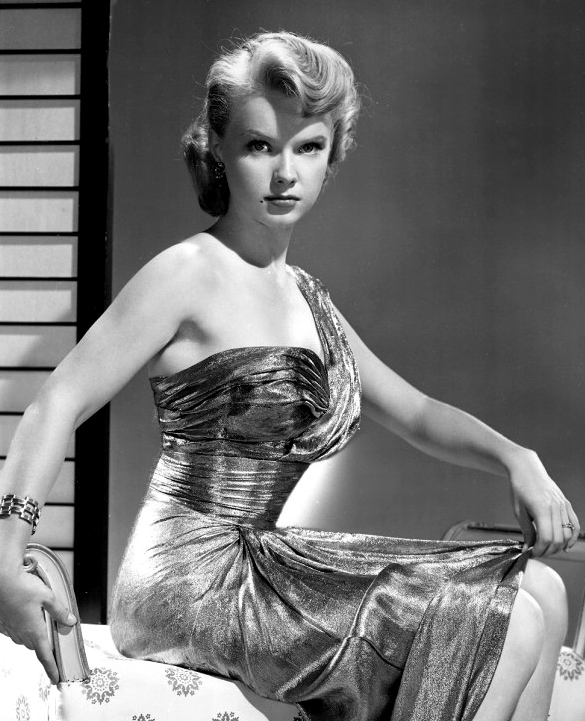 Original publicity photo of Anne Francis.